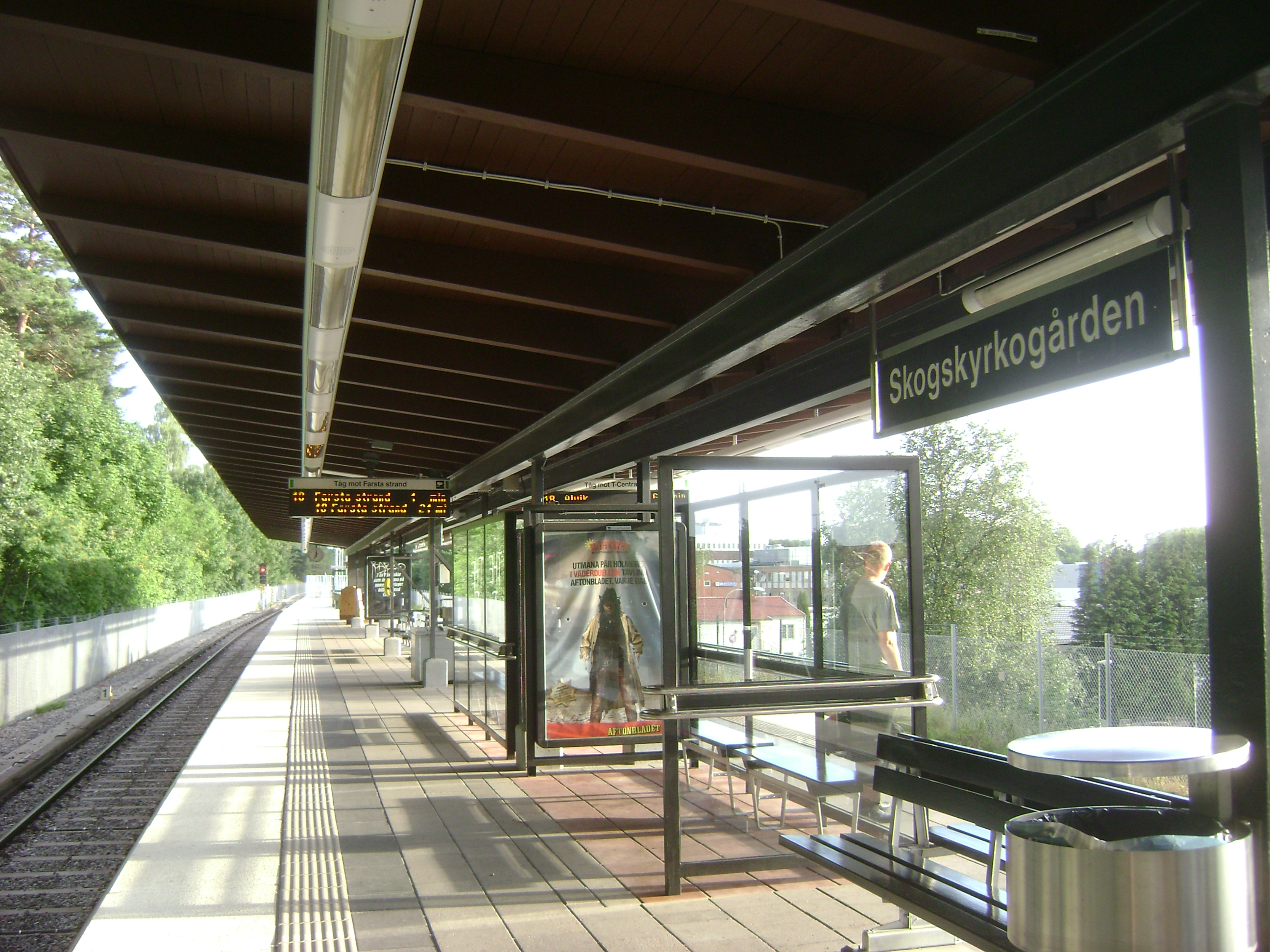 Sweden. Stockholm. Skogskyrkogården